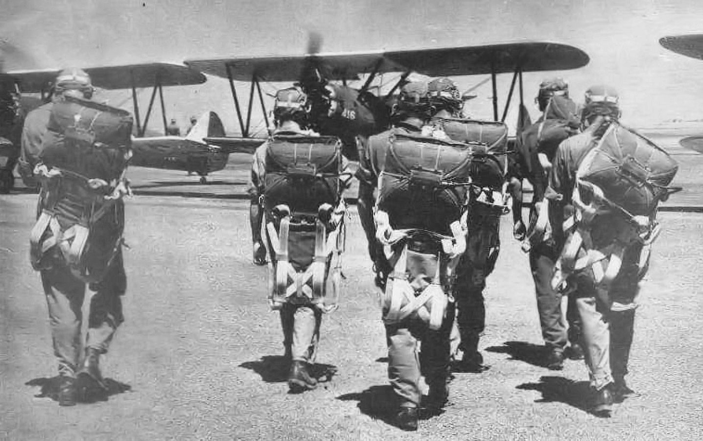 Rankin Field - Flight Cadets with PT-17s